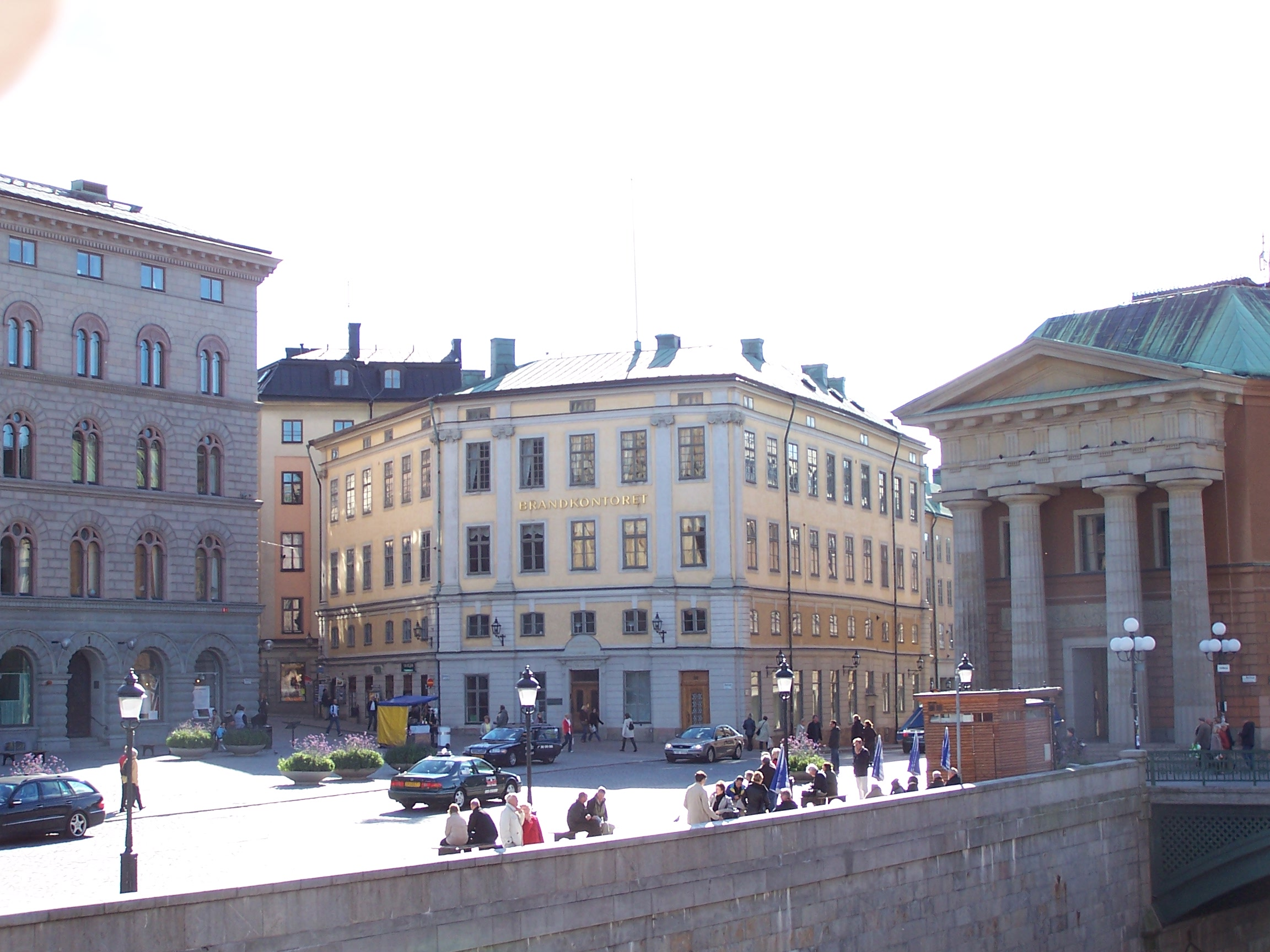 Mynttorget in Stockholm, Sweden, with Parliament buildings